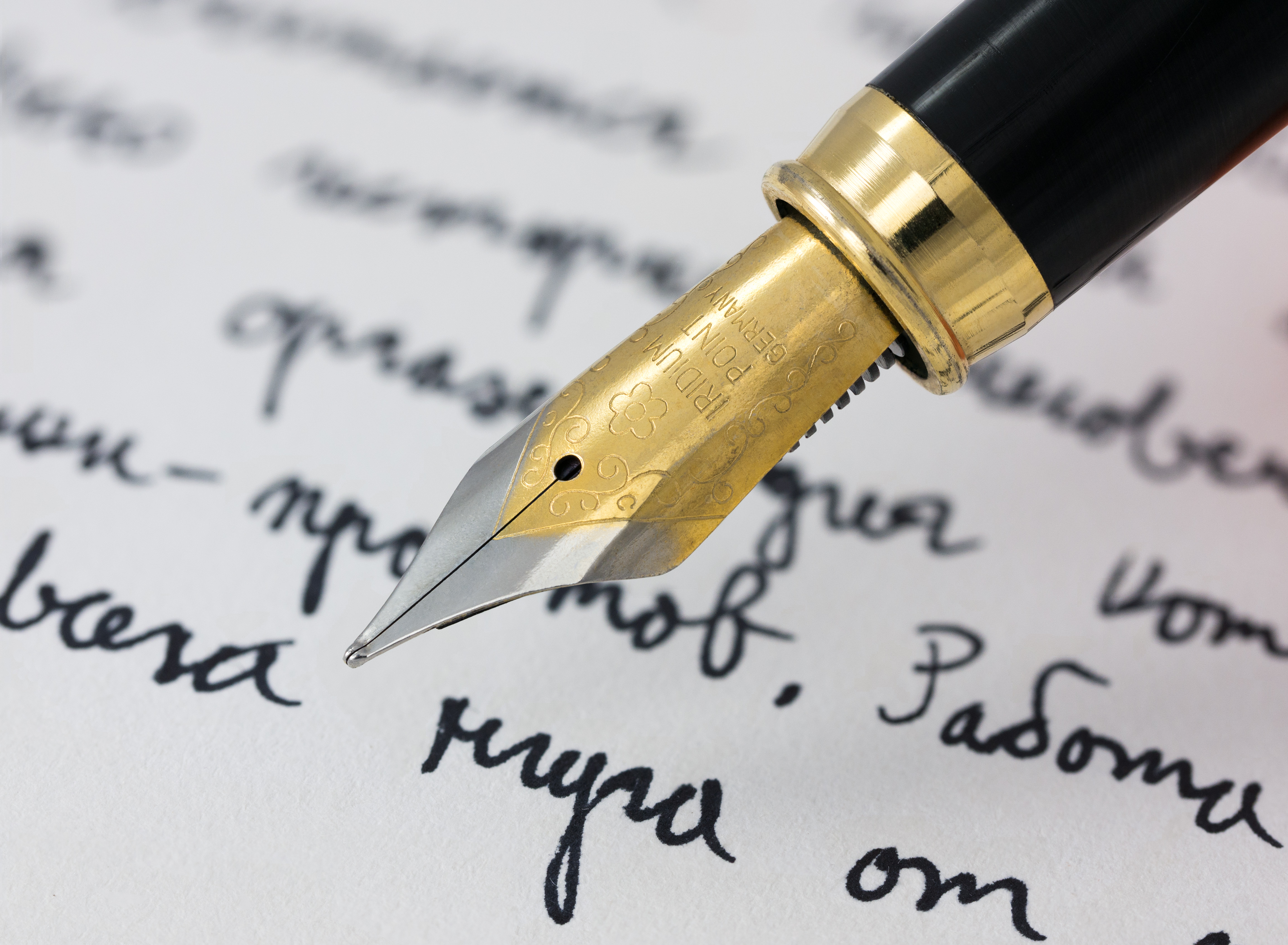 Writing in Russian cyrillic script with a fountain pen. The #6 "Iridium Point Germany" nib is an affordable modern OEM nib of Asian origin. Only the tip is German made and it contains no Iridium as other modern nib tips. The tiny tipping pellets are soldered or welded onto a nib tip prior to cutting the nib slit and grinding the tip into its final shape and are made of an alloy containing Osmium, Ruthenium and Tungsten in a mix of other materials.